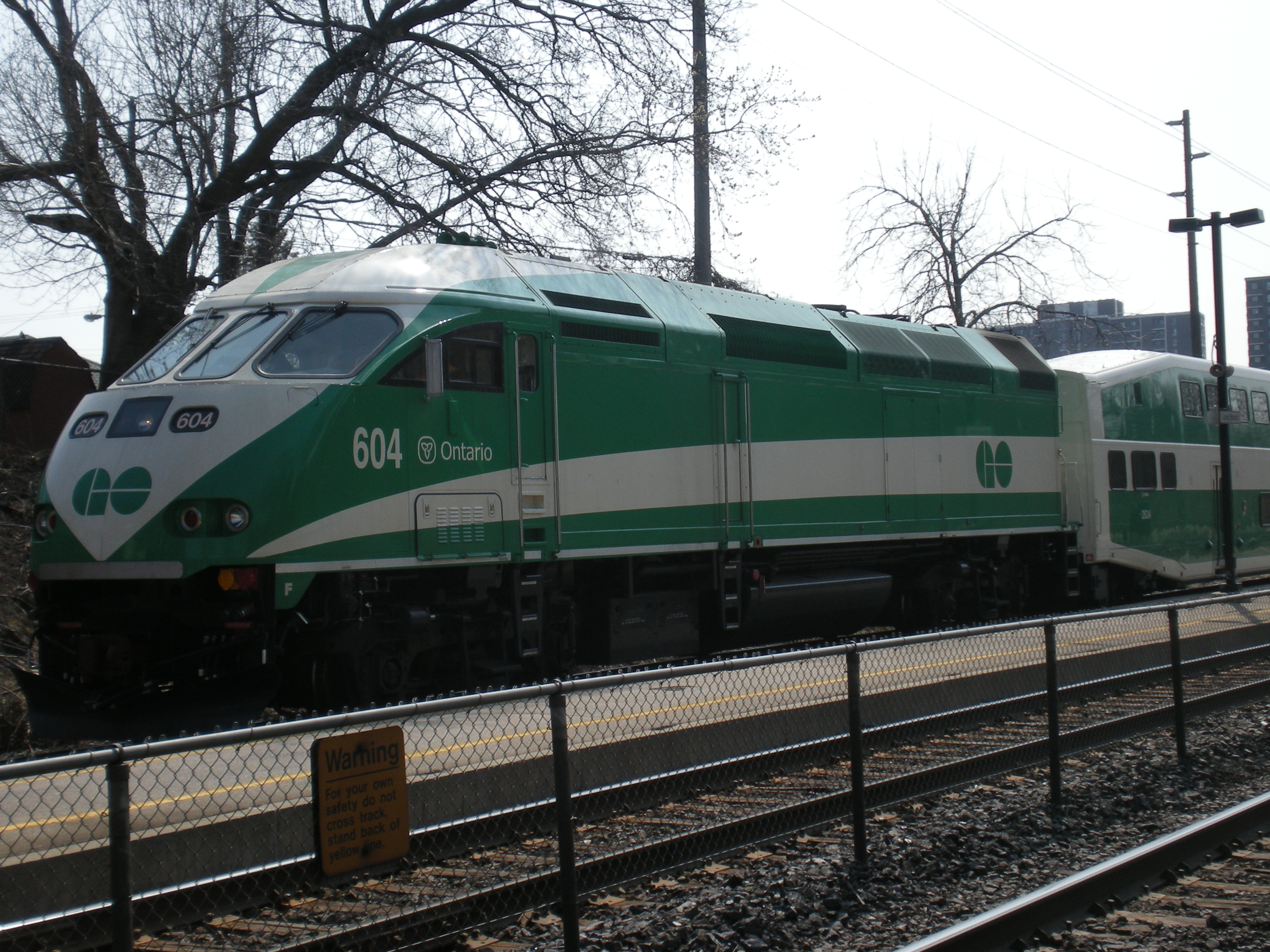 GO MP40 #604